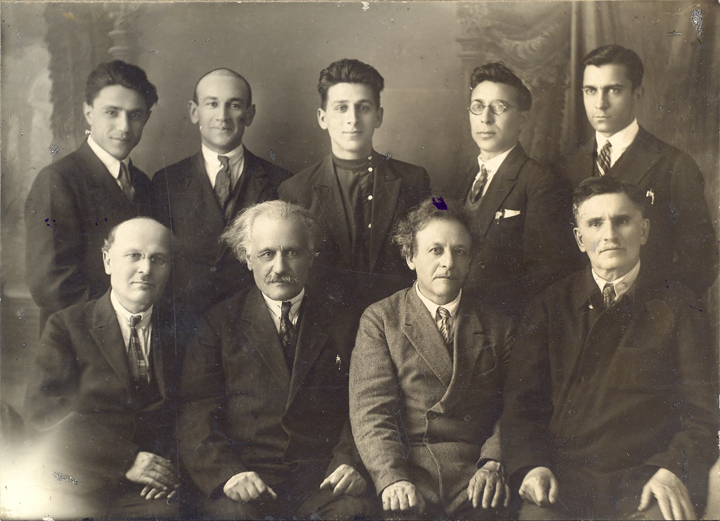 On the leg from left: Mammad Arif, Suleyman Rustam, Rasul Rza, Jafar Jabbarli, Afrasiyab Badalbeyli. sit from left: Anton Mayilyan, Abdurrahim Hagverdiyev, Gibo Kornelli, Rzagulu Najafov